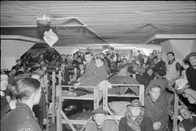 Life in a Basement Shelter, London, England, 1940 A large group of shelterers look towards the camera from the rows of bunks in this basement shelter somewhere in London, in November 1940. This was a very popular shelter as the building above was believed to be very strong and would hopefully withstand any air raids.